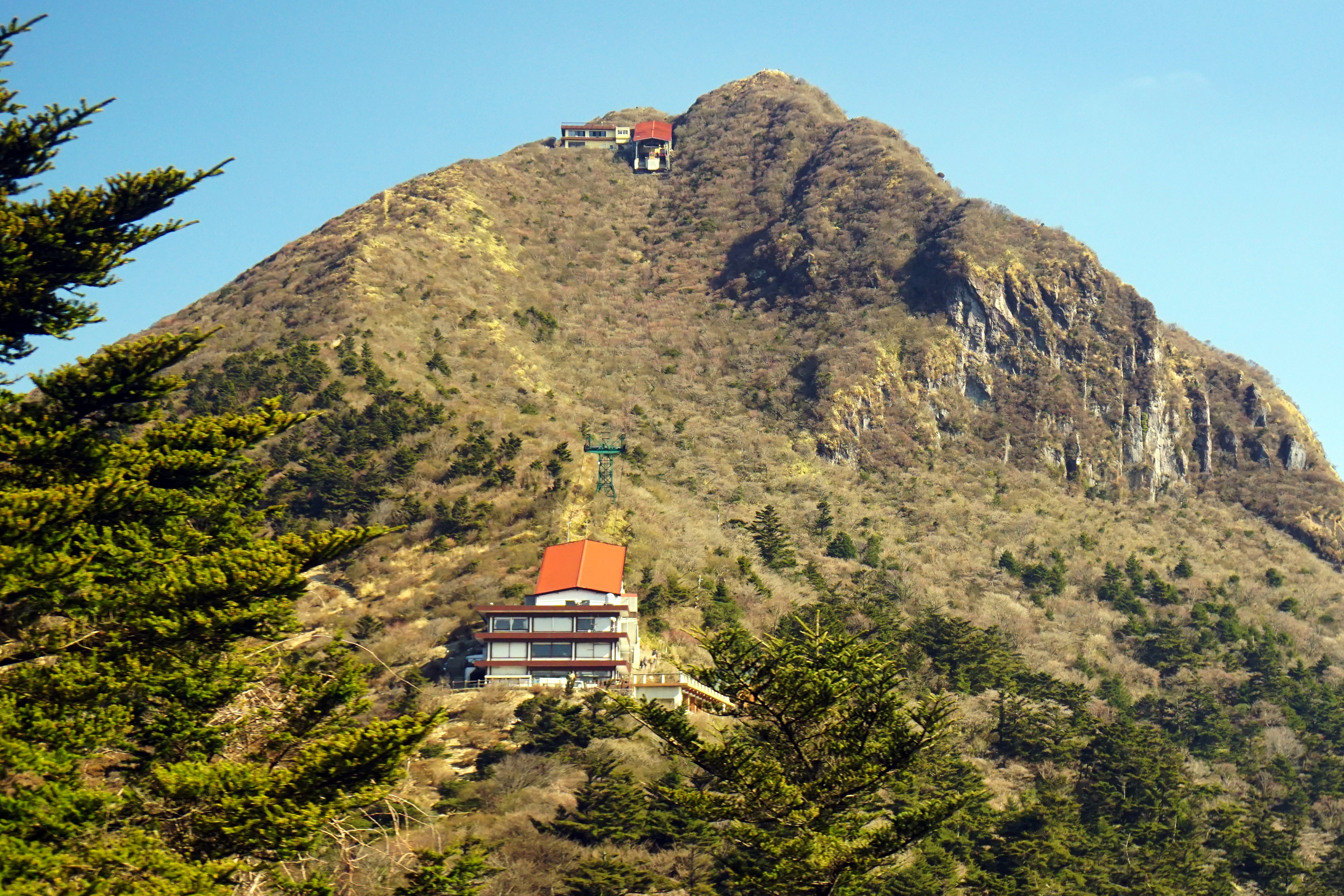 Mount Heisei-shinzan and Mount Fugen-dake are part of Unzen volcanic complex at Unzen City, Nagasaki prefecture, Japan.